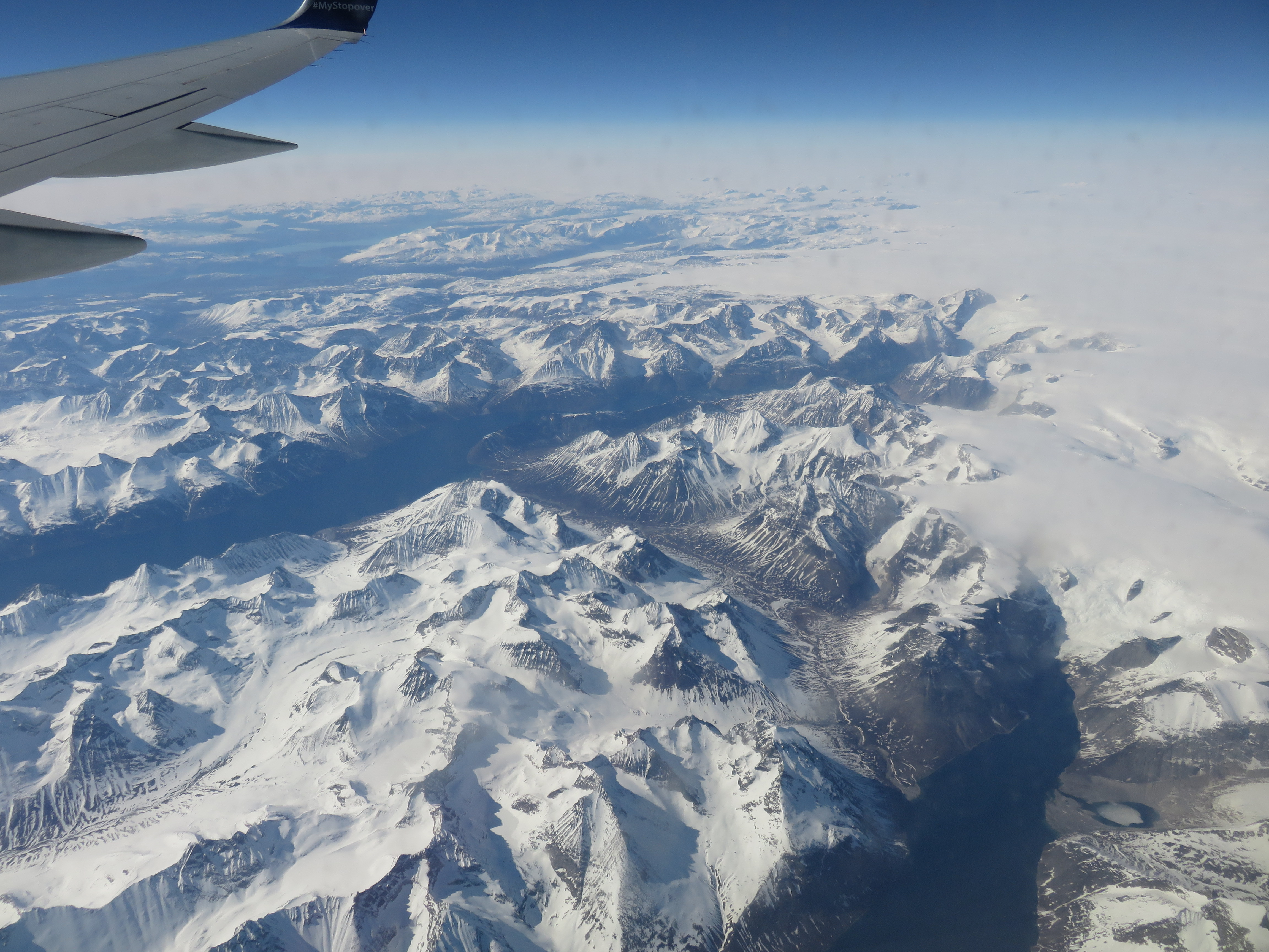 Eastern part of Southern Sermilik fjord in Greenland in 2018